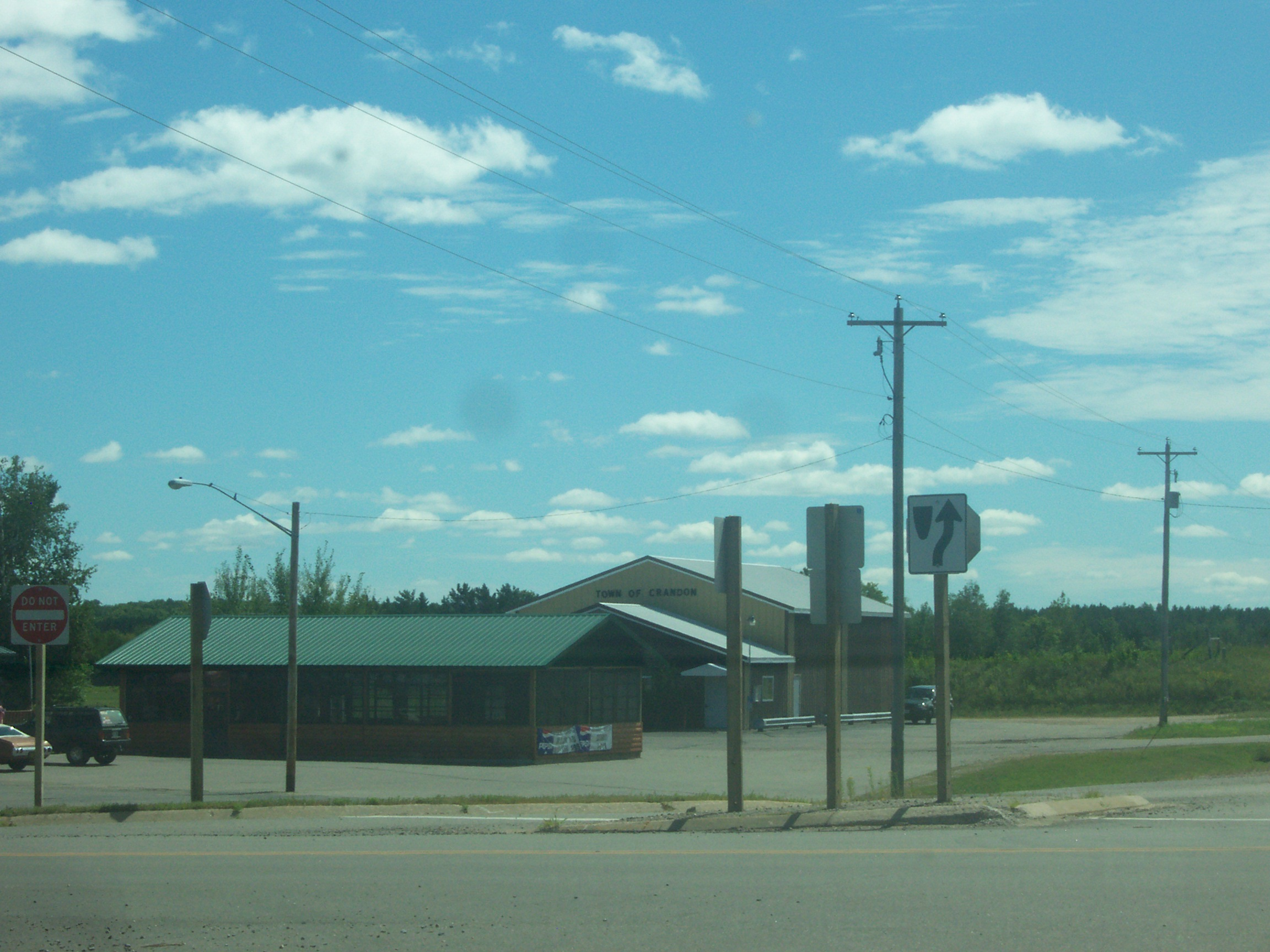 Looking south at the town hall for Crandon (town), Wisconsin at the intersection of County S and U.S. Route 8.